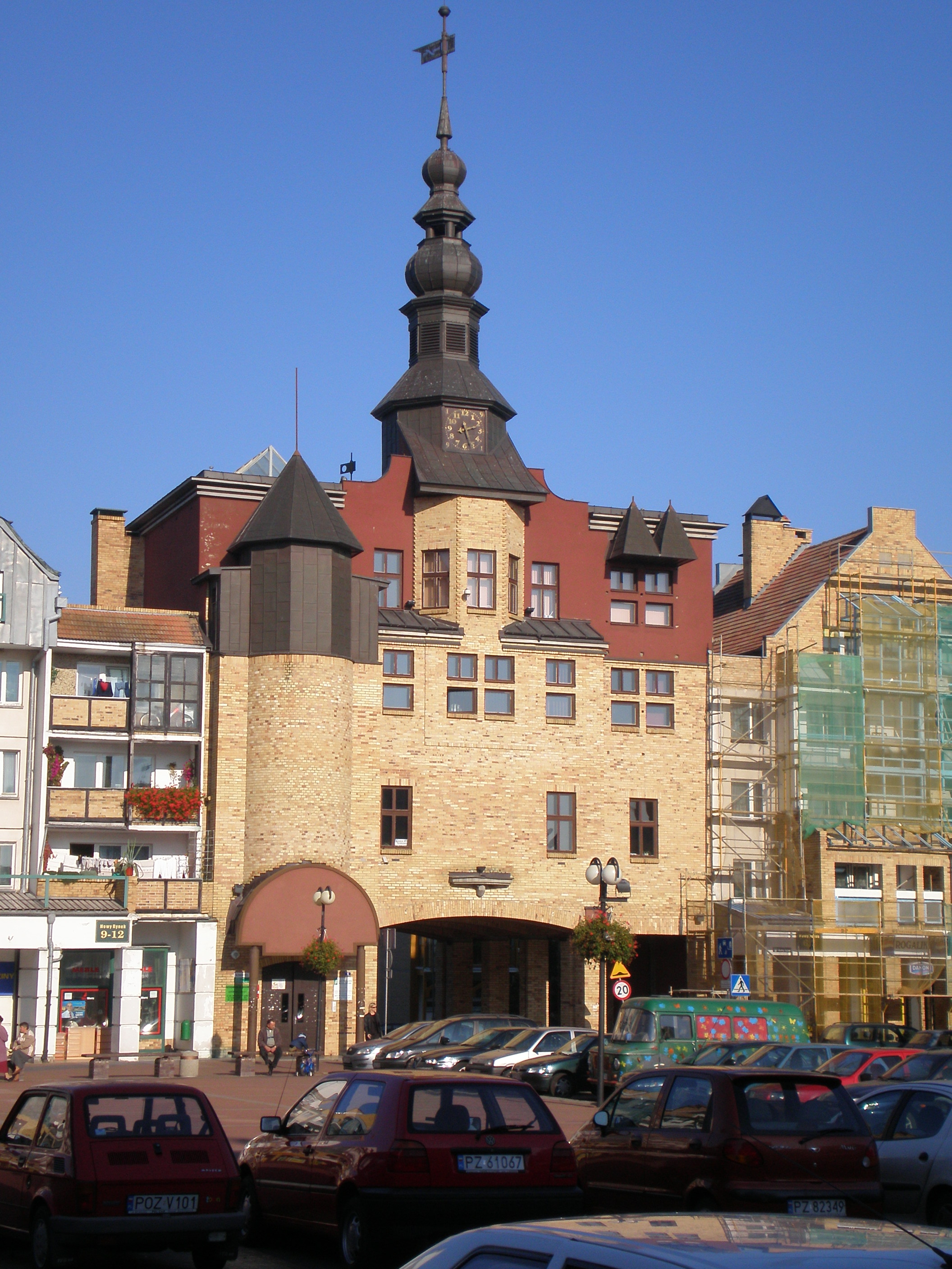 Murowana Goślina town.